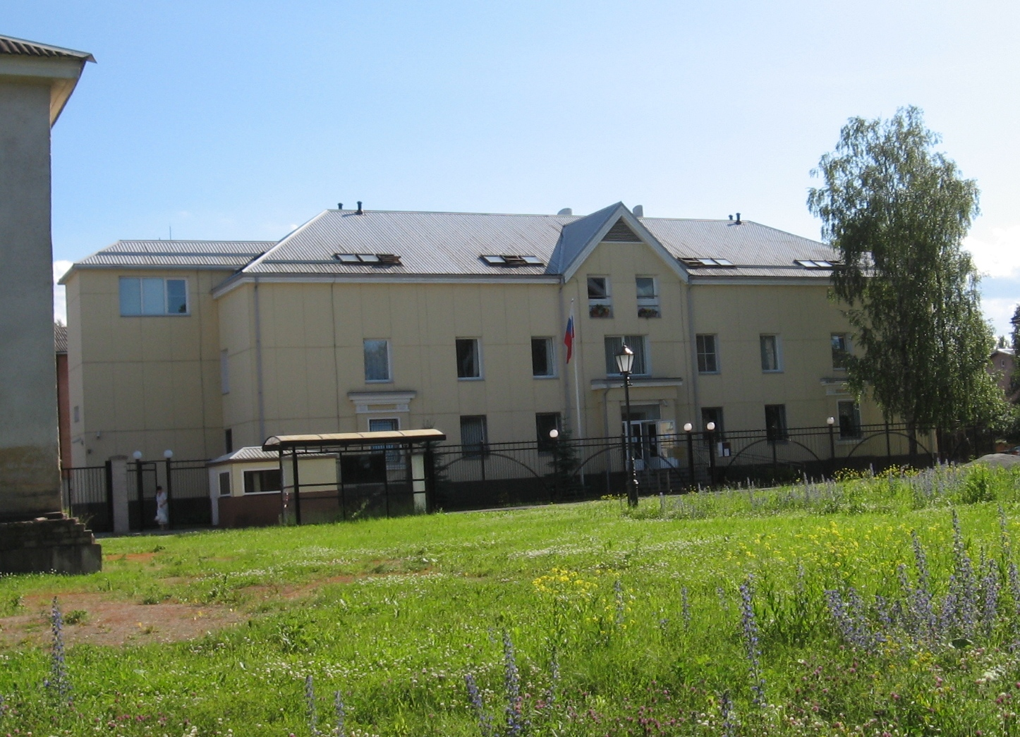 Consulate-General of Russia in Narva